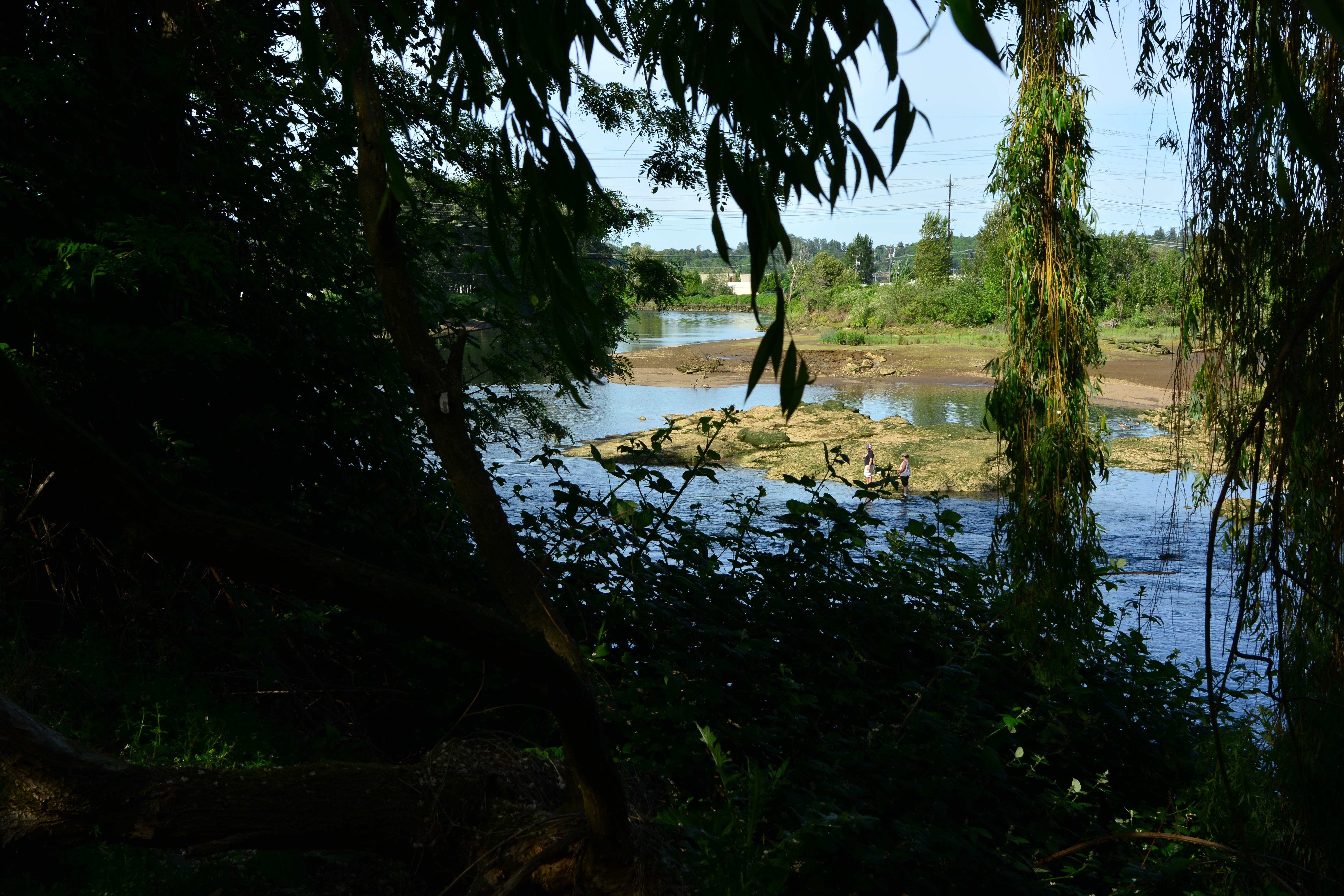 Fishing from North Wind's Weir on the Duwamish River, Tukwila, Washington. Seen from the west bank of the river in Cecil Moses Memorial Park.